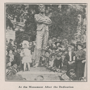 Page 20